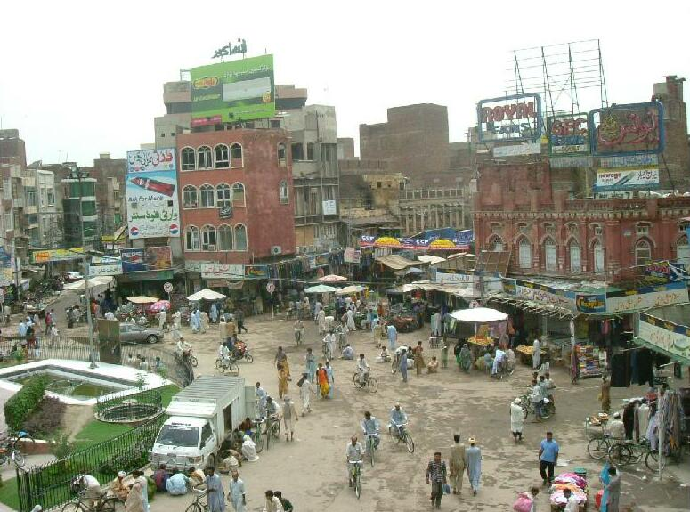 This is a side view of the eight bazaars, with The famous clock tower located at the center in Faisalabad, Pakistan.